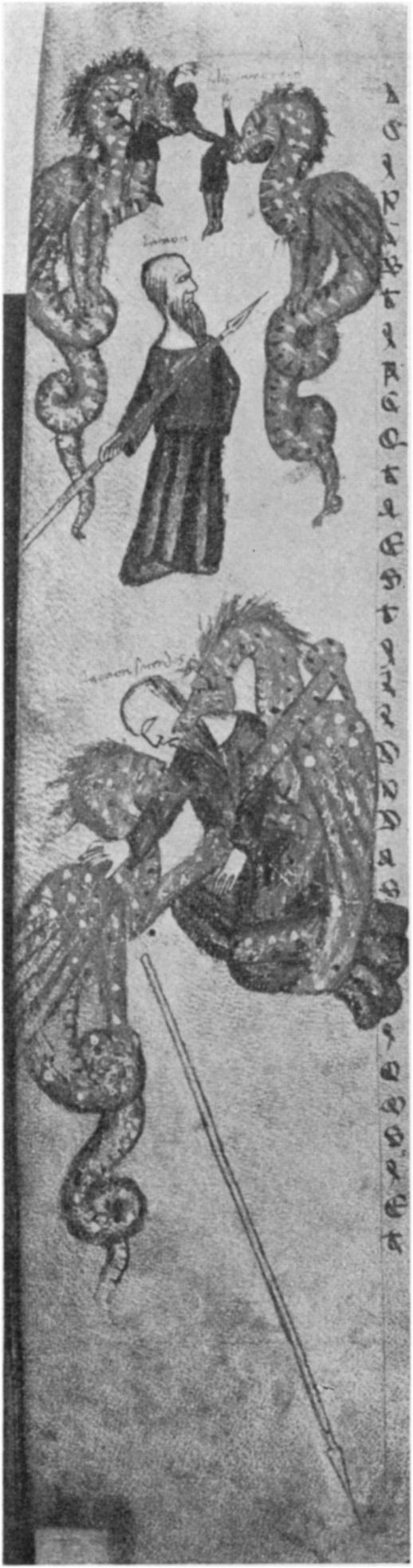 Miniatures of Codex Vaticanus lat. 2761 folium 15v. Description: filii Lacaontis.